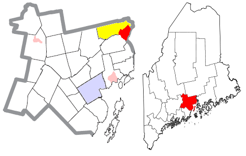 Map of the divisions of Waldo County, Maine, United States, with the census-designated place of Winterport highlighted in red. The city of Belfast is light blue; the town of Winterport, of which the census-designated place is a part, is yellow; other towns are white; and pink areas are census-designated places within other towns.